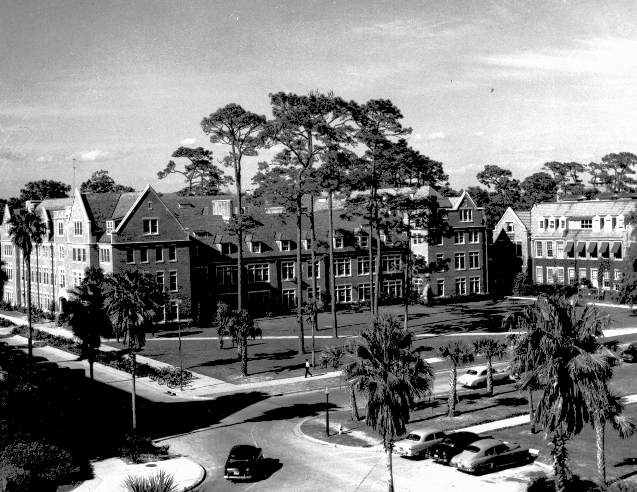 A historic photo of the University of Florida campus.